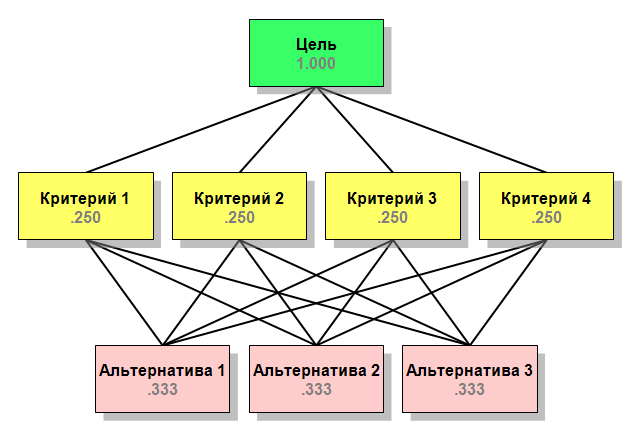 Illustration for Analytic Hierarchy Process article